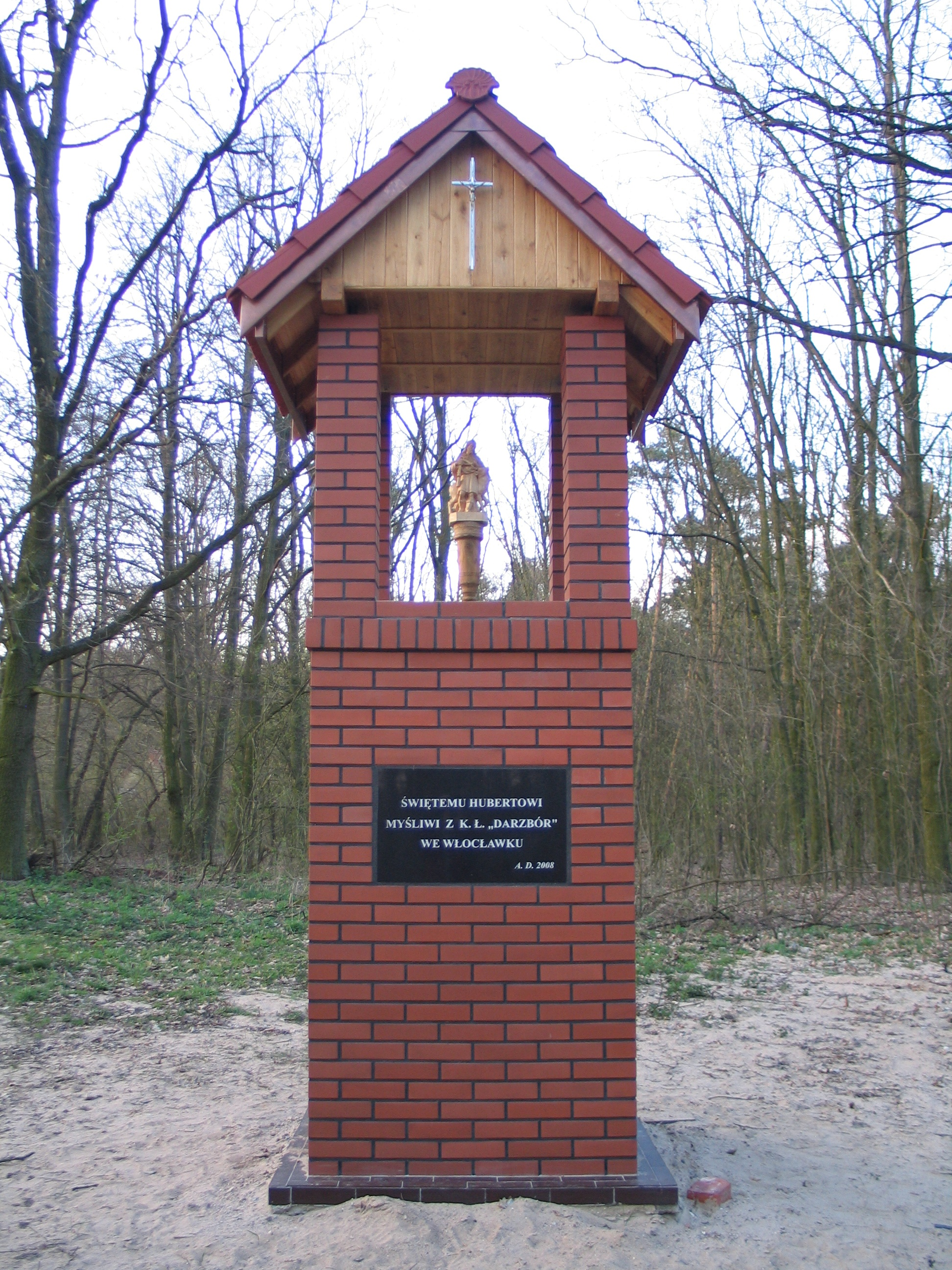 Lipiny forester's lodge – wayside shrine